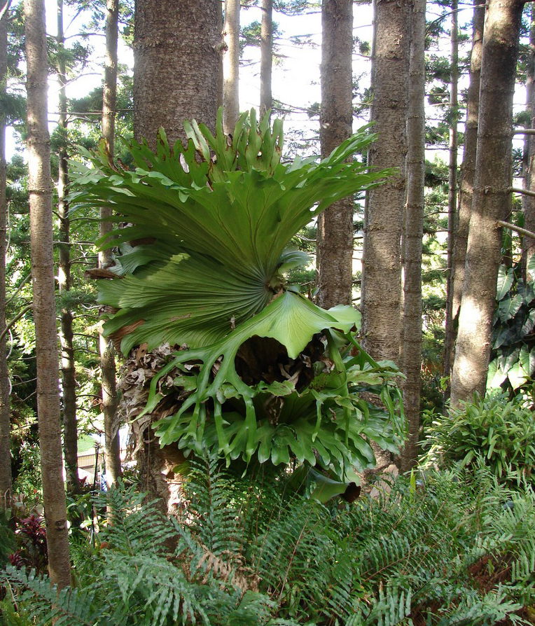 Staghorn Fern Platycerium superbum, growing on Araucaria cunninghamii in Mt Cotton Rainforest Gardens, Brisbane, Australia